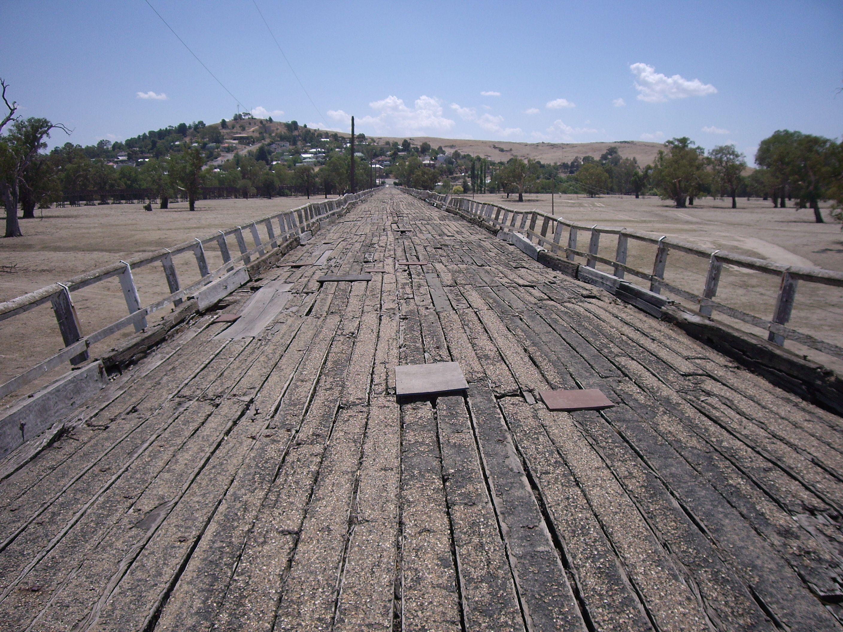 Photograph taken by VirtualSteve. Full catalogue of all my images uploaded to Wikipedia available here Images